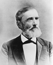 Portrait of Senator David Turpie of Indiana